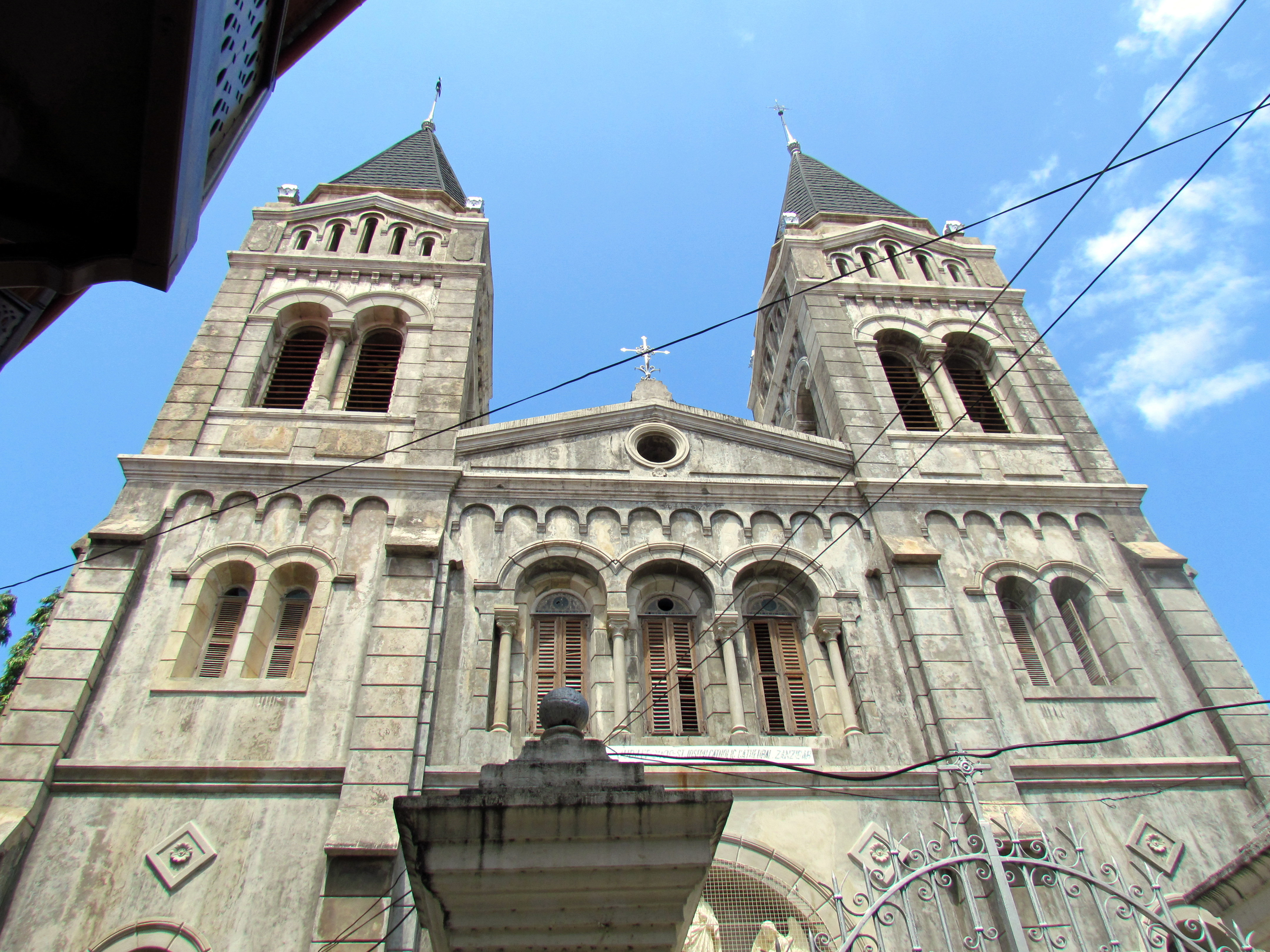 St. Joseph Cathedral in Stone Town - Zanzibar, Unguja island - Tanzania, Africa